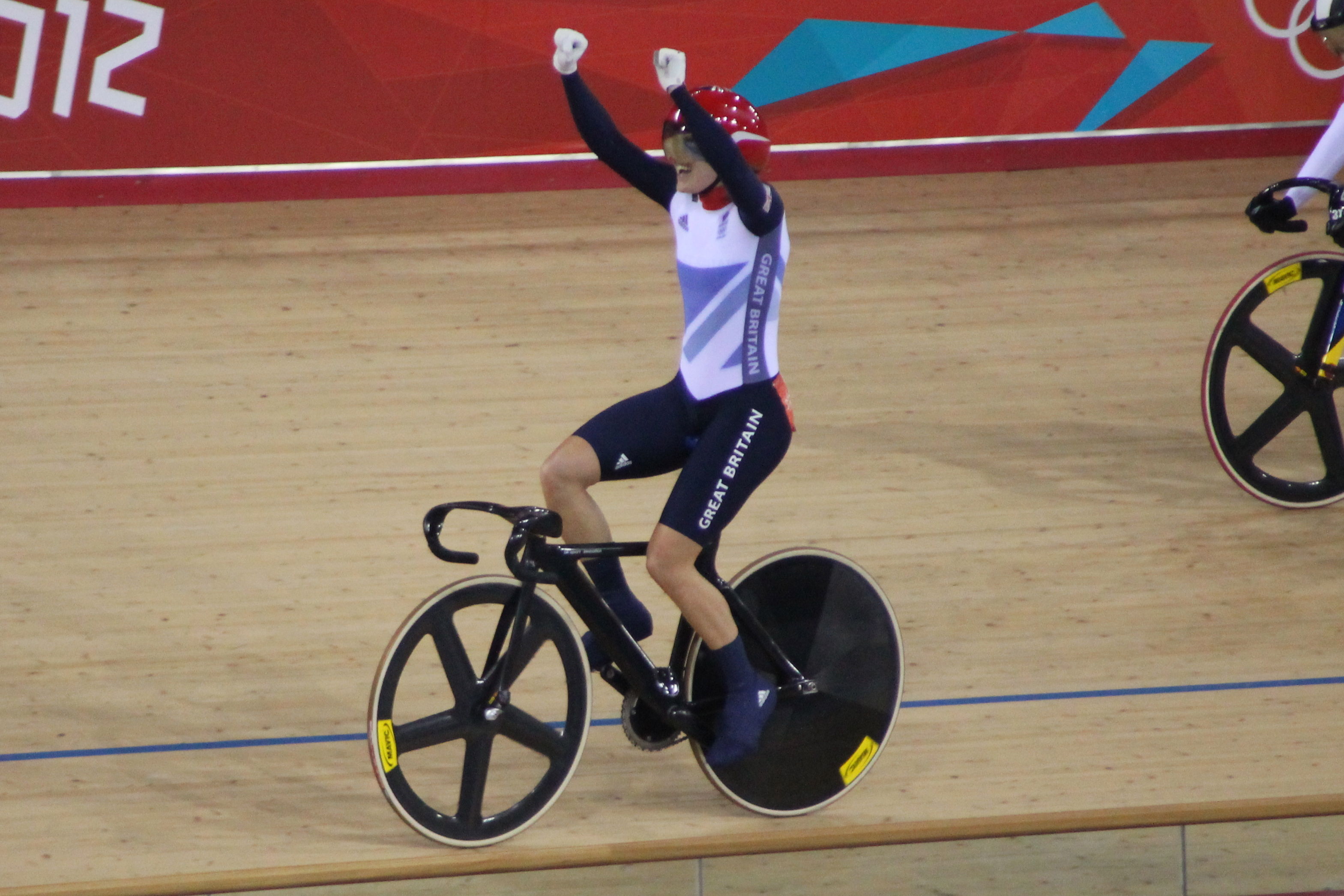 Victoria Pendelton celebrating victory at the Veldorome, London Olympics, 3 August 2012.